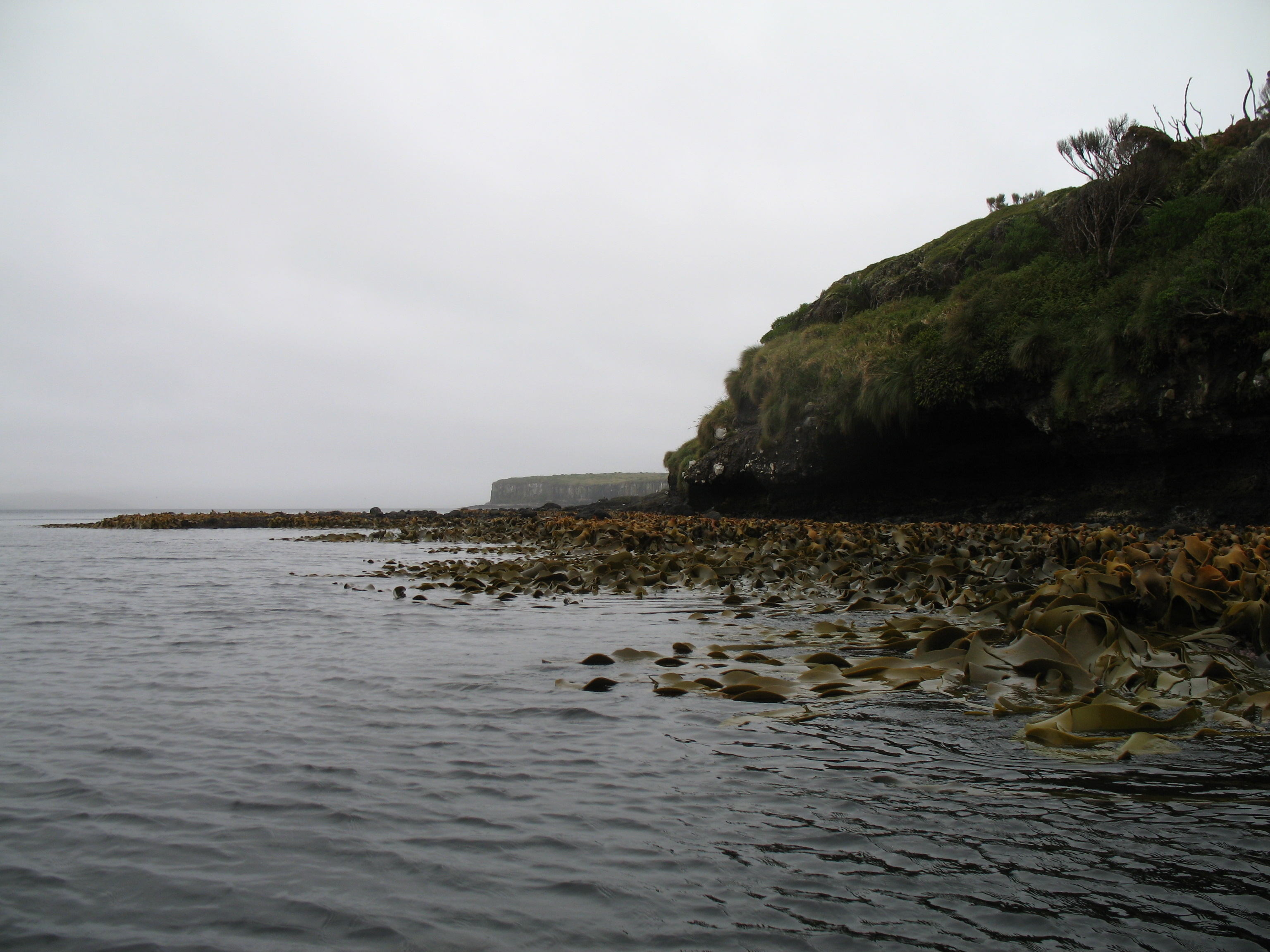 A view along the coast of Enderby Island (with kelp).